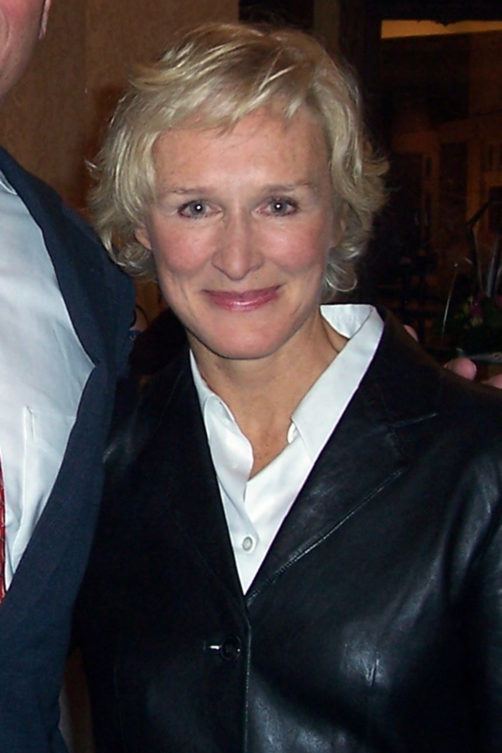 Glenn Close, born March 19, 1947 in Greenwich, Connecticut, is an American film, television, and stage actress. Consistently acclaimed for her versatility, she has been nominated six times for an Oscar (five times throughout the 1980's), three times for a Grammy Award and once for a BAFTA Film Award, and has won three Tonys, an Obie, three Emmys, two Golden Globes, and a Screen Actors Guild Award. Source: Wikipedia